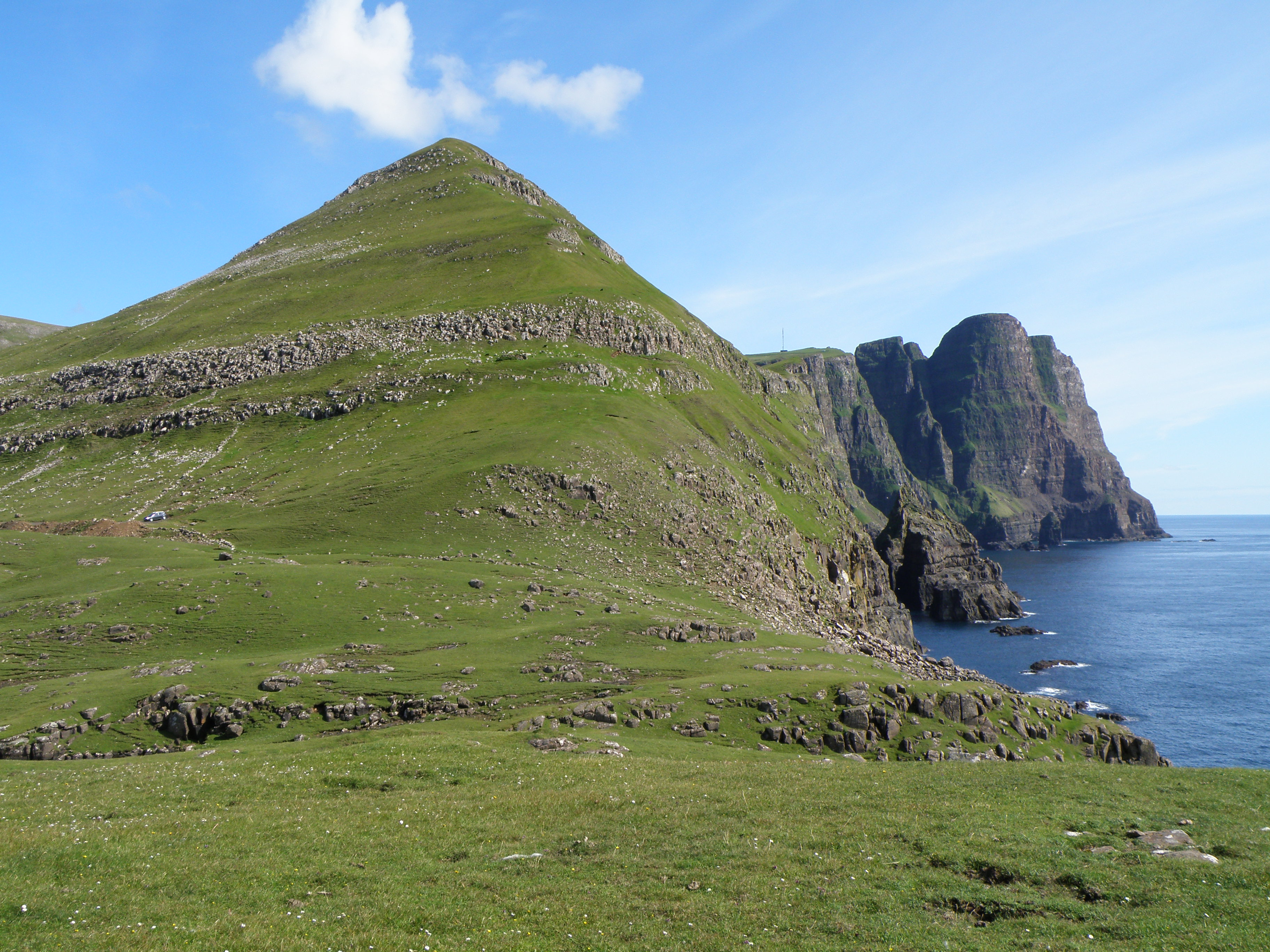 This photo was taken from Lopranseiði in Suðuroy, near the village Lopra, Faroe Islands. The green mountain is called Kirvi, the top of the mountain is called Kirviskollur. The mountain is 236 meters high. The cliff to the right on the photo is called Beinisvørð. It is 470 meters high and is the second highest sea cliff of the Faroe Islands. Beinisvørð is also one of the highest sea cliffs in Europe. Føroyskt: Myndin er tikin frá Lopranseiðinum við útsýni suðureftir móti fjallinum Kirvi og Beinisvørð. Fjallatoppurin á Kirvi eitur Kirviskollur. Fjallið er 236 metrar høgt. Bergið longri burtur, til høgru á myndini, er Beinisvørð, sum er 470 metrar høgt berg. Tað er tað hægsta bergi í Suðuroynni og tað næsthægsta í Føroyum. Beinisvørð er eisini eitt av teimum hægstu bjørgunum í Europa.